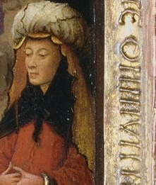 Unidentified woman in the froground of the left hang wing. Possible the Erythraean sibyl.